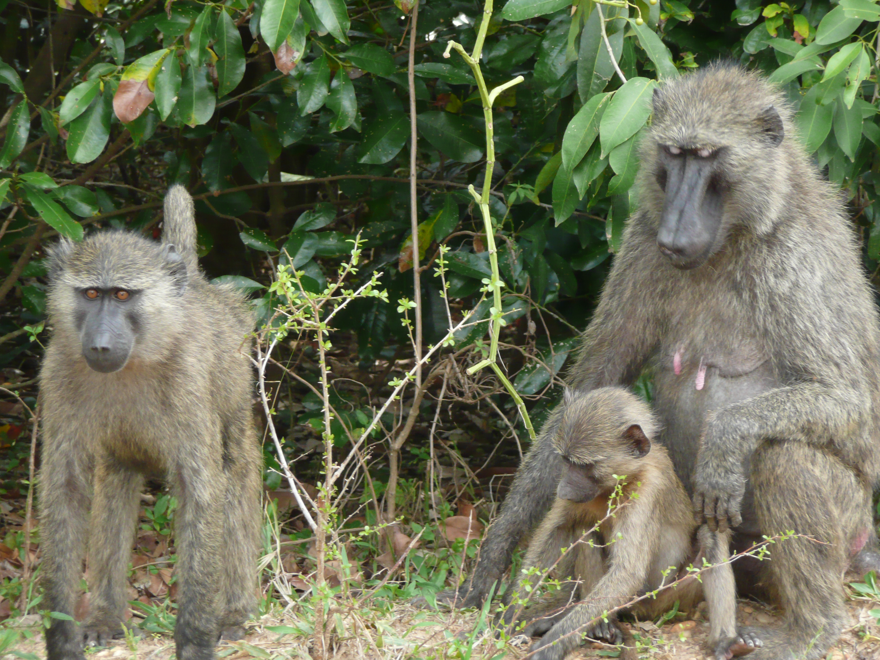 A female Olive baboon, her baby and a juvenile